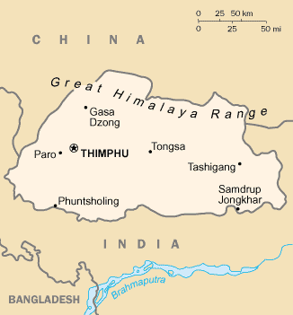 Bhutan map from CIA World Factbook